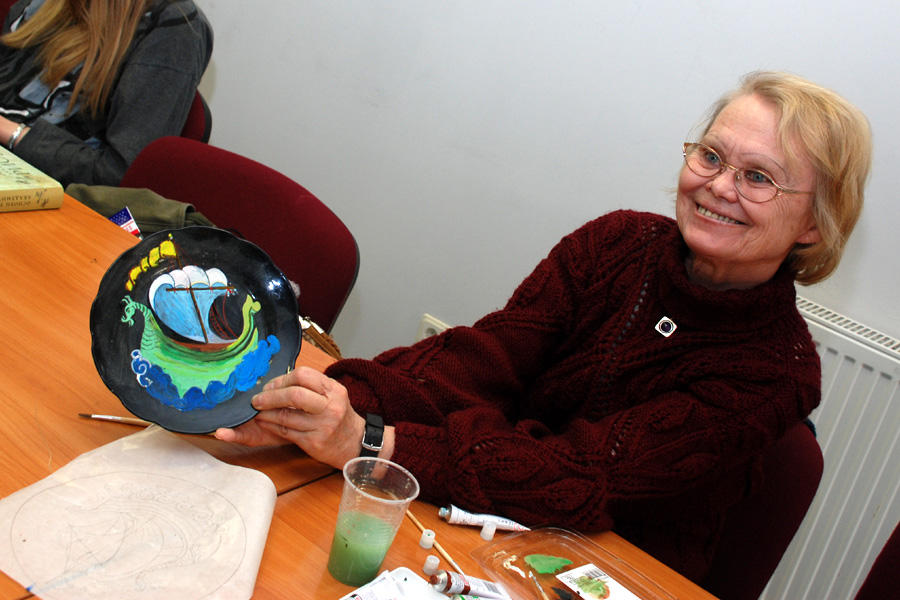 Training od crafts in Kaunas Cultural Centre of Various Nations.